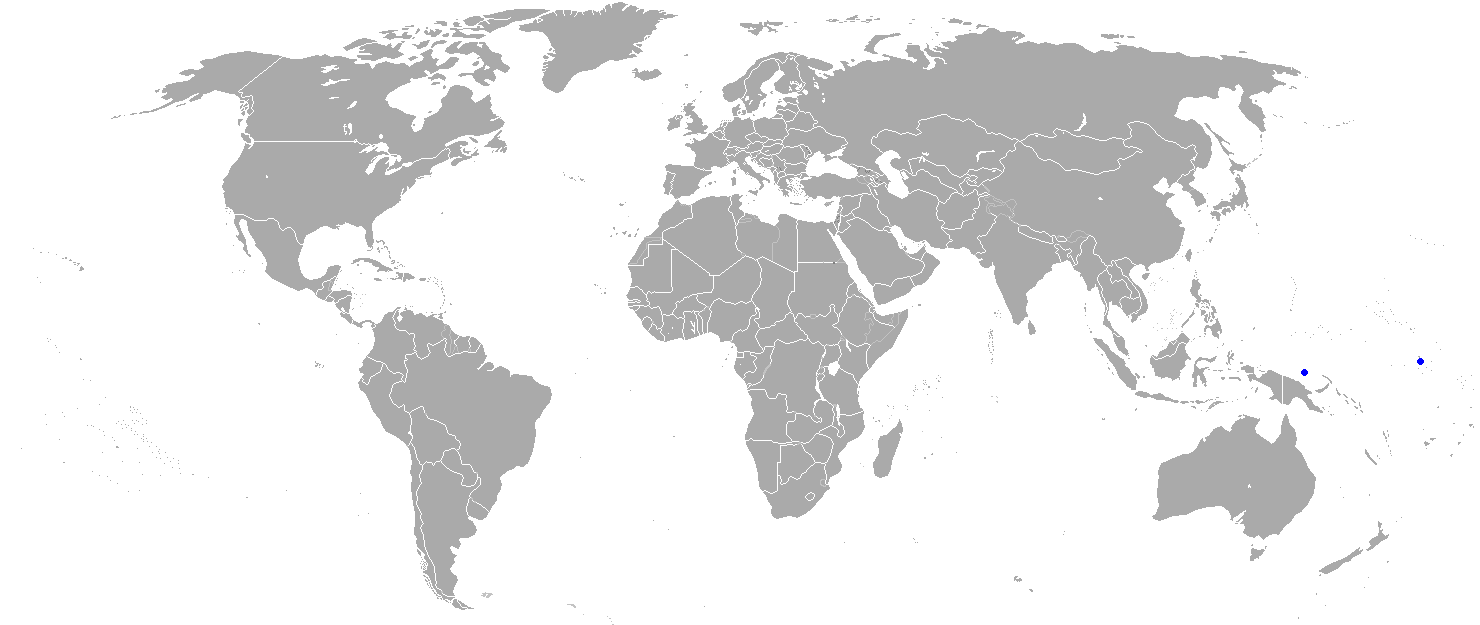 Distribution of the small-mouth righteye flounder, Nematops microstoma, using a blank map of the world showing 2008 borders. Based on File:BlankMap-World.png; as it is PD, this is too.